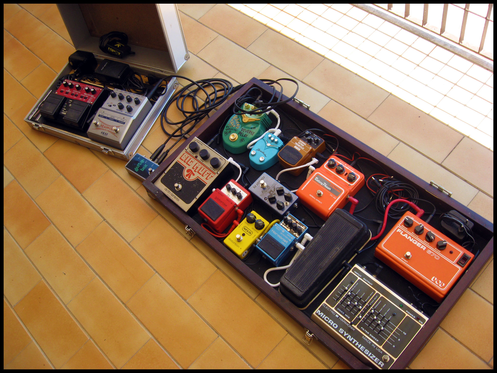 left box Ibanez LU10 Tuner Boss RC-20 Xl AKAI HeadRush E1 Guitar Box home made A/B Box right 1st row Danelectro Backtalk Reverse Delay Danelectro PB&J Delay Behringer Ultra Tremolo Copilot FX Android Modulaor Maxon PH-350 Rotary Phaser DOD Flanger 670 right 2nd row Electro Harmonix Big Muff Crysta Distortion DS-1 MXR Distortion + BOSS HR-2 Harmonist EKO Wha (1974 red fasel) Electro Harmonix Micro Synthesizer